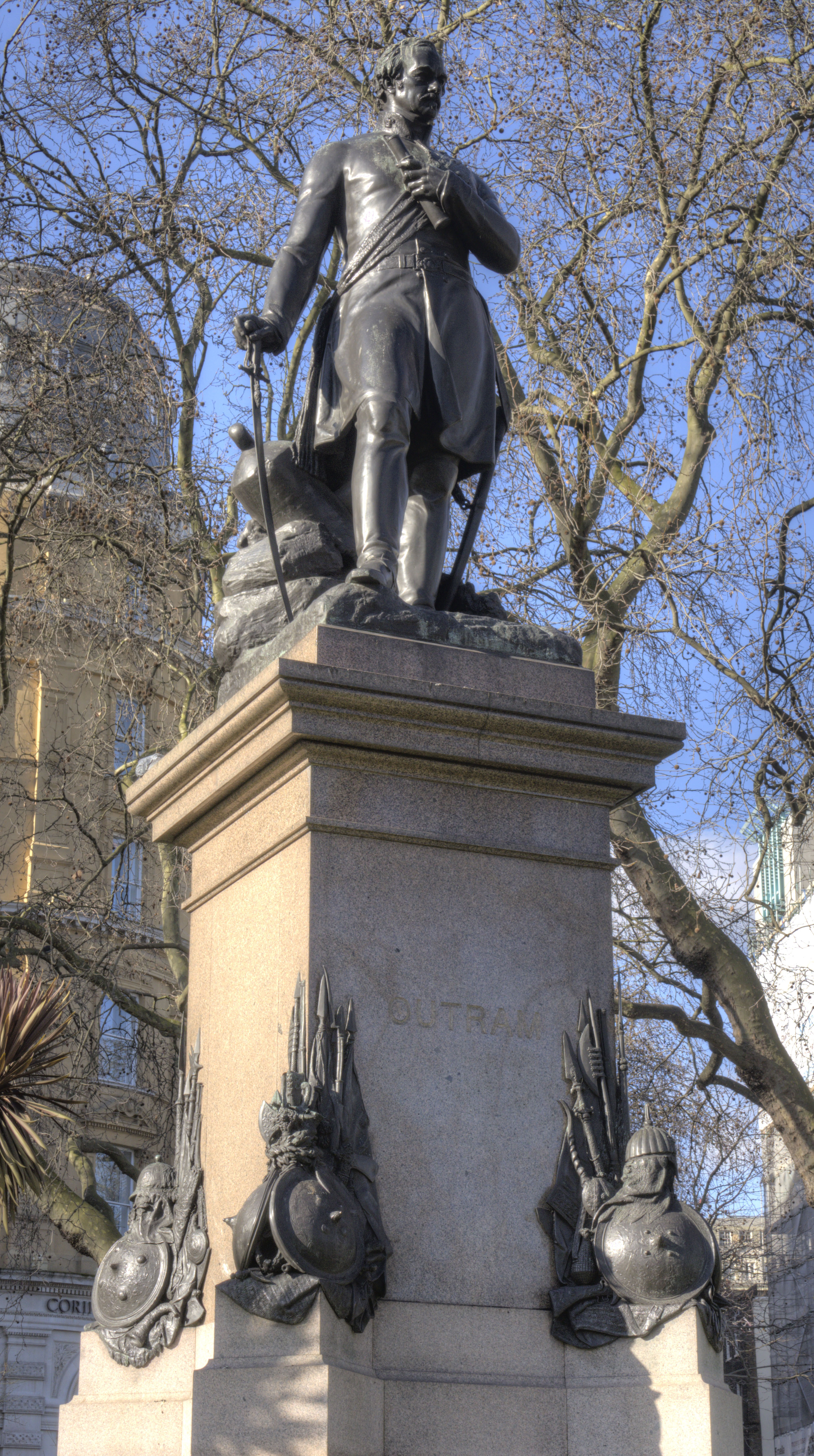 Statue of James Outram, Victoria Embankment Gardens